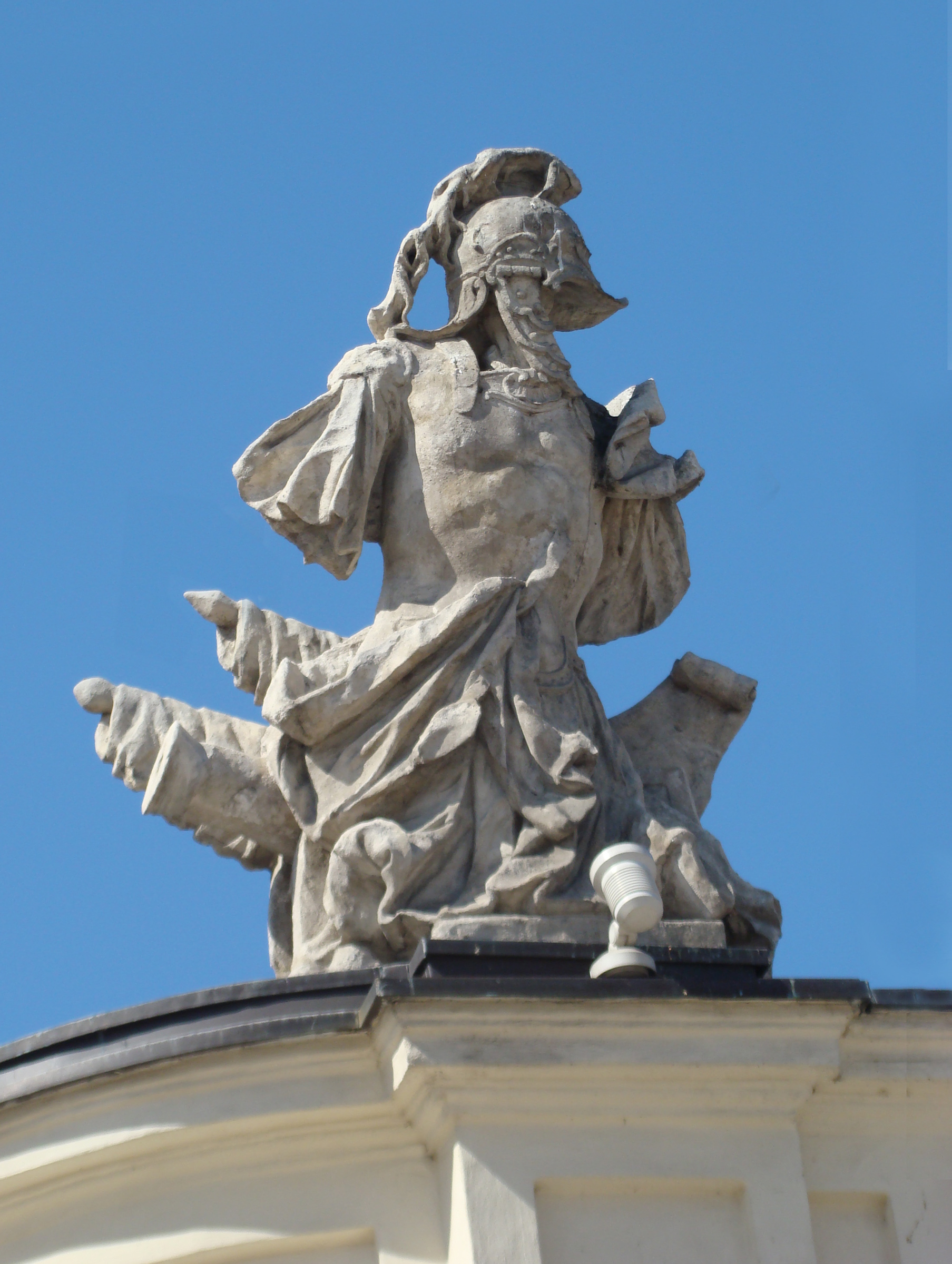 Potocki Palace, Warsaw (panoply)